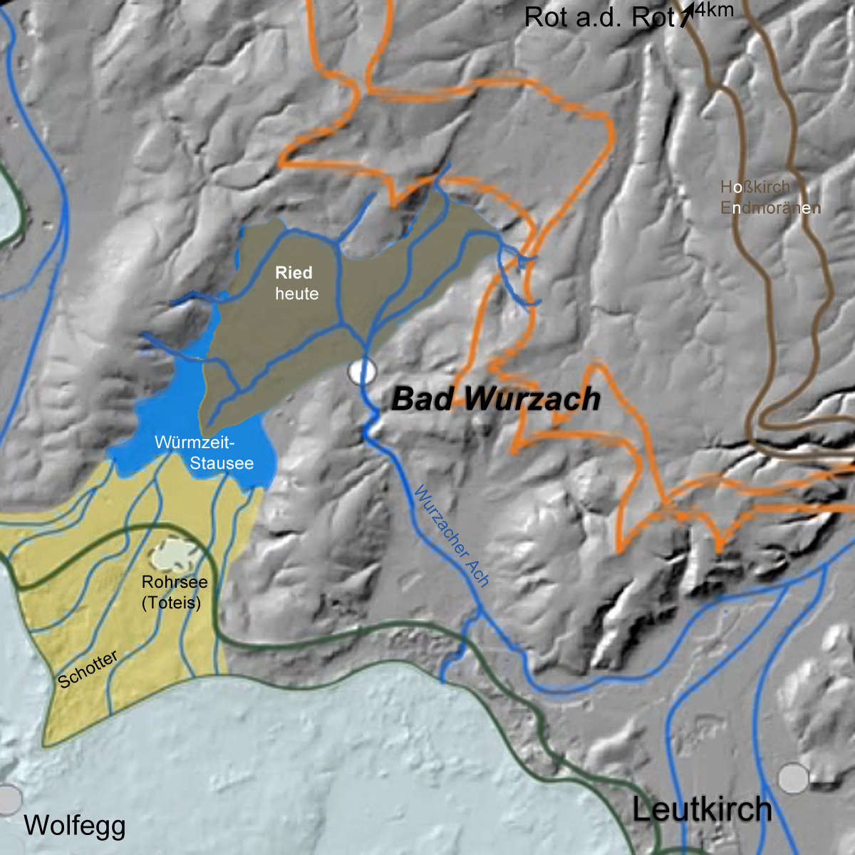 Graphic of the geological development of the Zungenbecken, which became the "Wurzacher Ried", Upper Swabia, Baden-Württemberg. The colored lines are those of various terminal moraines, which formed in Middle- and Lower Pleistocene (Hoßkirch glacier, Riß glacier and Würm glacier). The terminal moraines of the Riss- and Würm glaciers confined the Zungenbecken, the lake’s size shrank and slowly silted up.